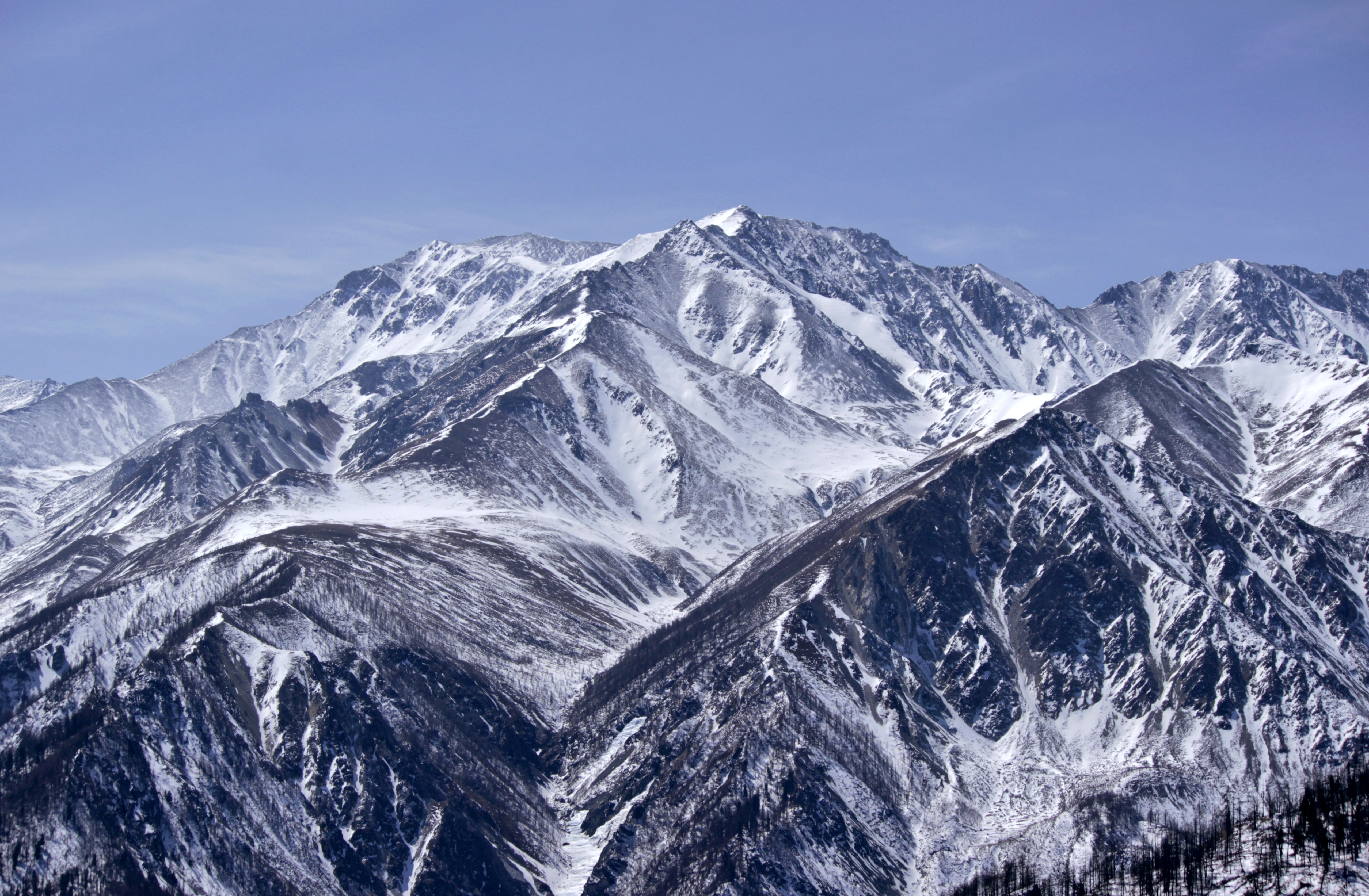 View from Mount Nukhu-Daban to Mount Munku-Sardyk (Mönkh Saridag) at the East Sayan. Okinsky ditrict of Buryatia, Russia.